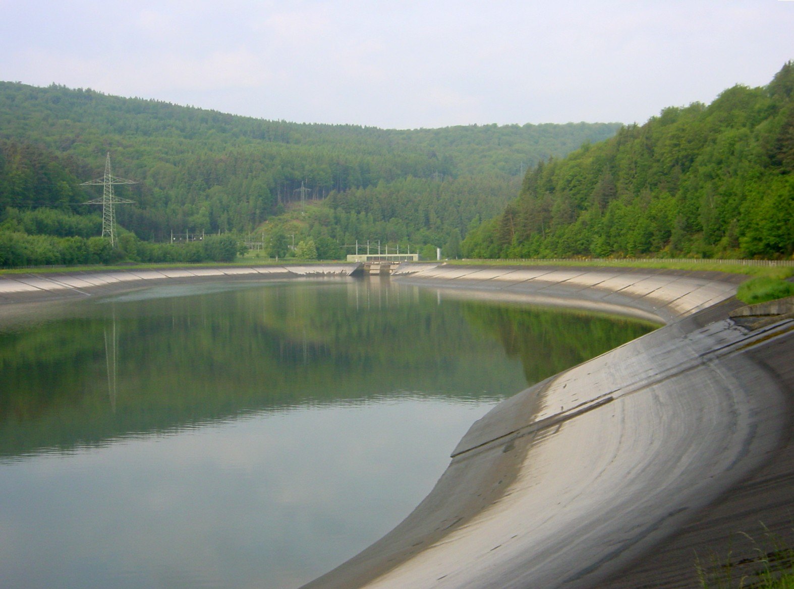 Langenprozelten pumped storage plant, lower reservoir, near Gemünden, Bavaria, Germany